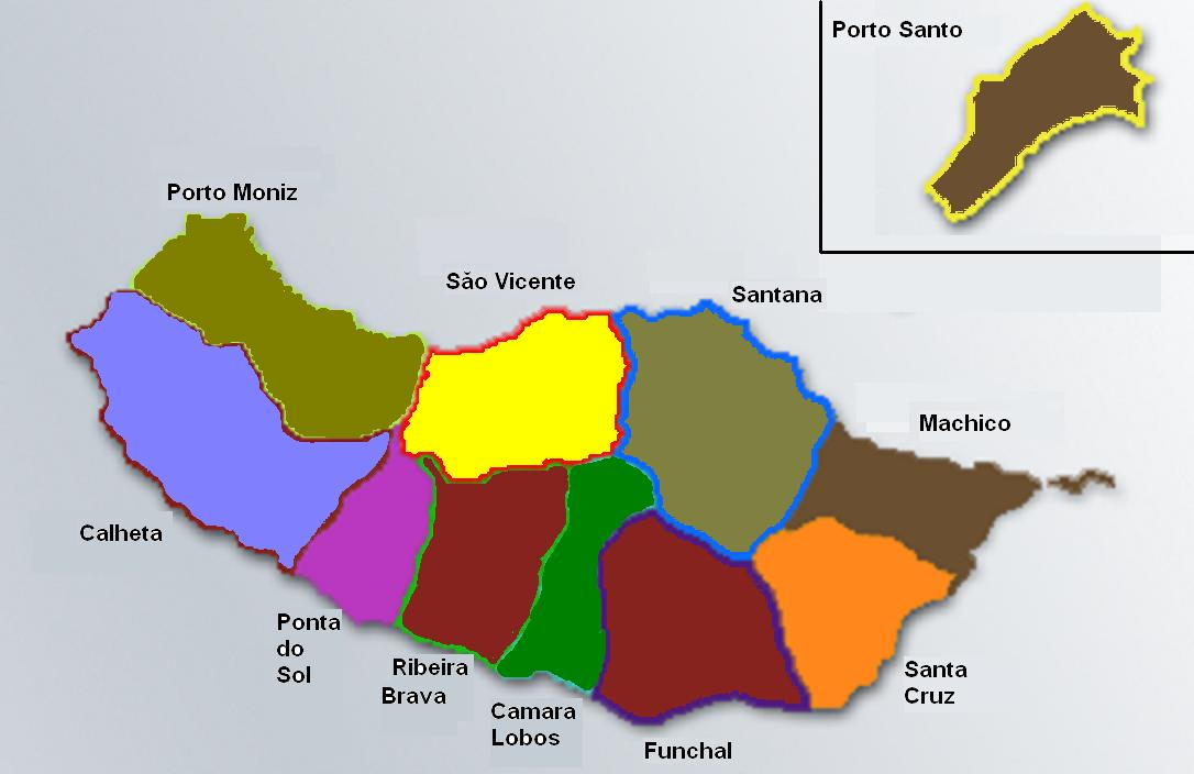 Districts in Madeira